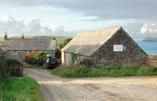 Holiday cottages at Tregirls Farm, north of Padstow, Cornwall near England